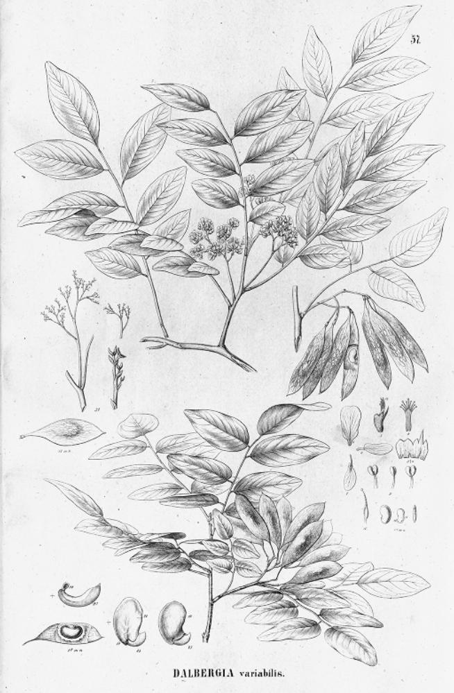 Illustration of Dalbergia frutescens (Orig. Dalbergia variabilis)